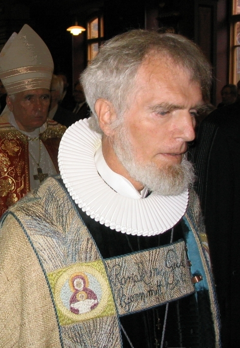 Bishop Børre Knudsen of Strandebarm Prosti in the Church of Norway, at the ordination of bishop Arne Olsson to the episcopacy of Missionsprovinsen in the Church of Sweden, February 5, 2005.